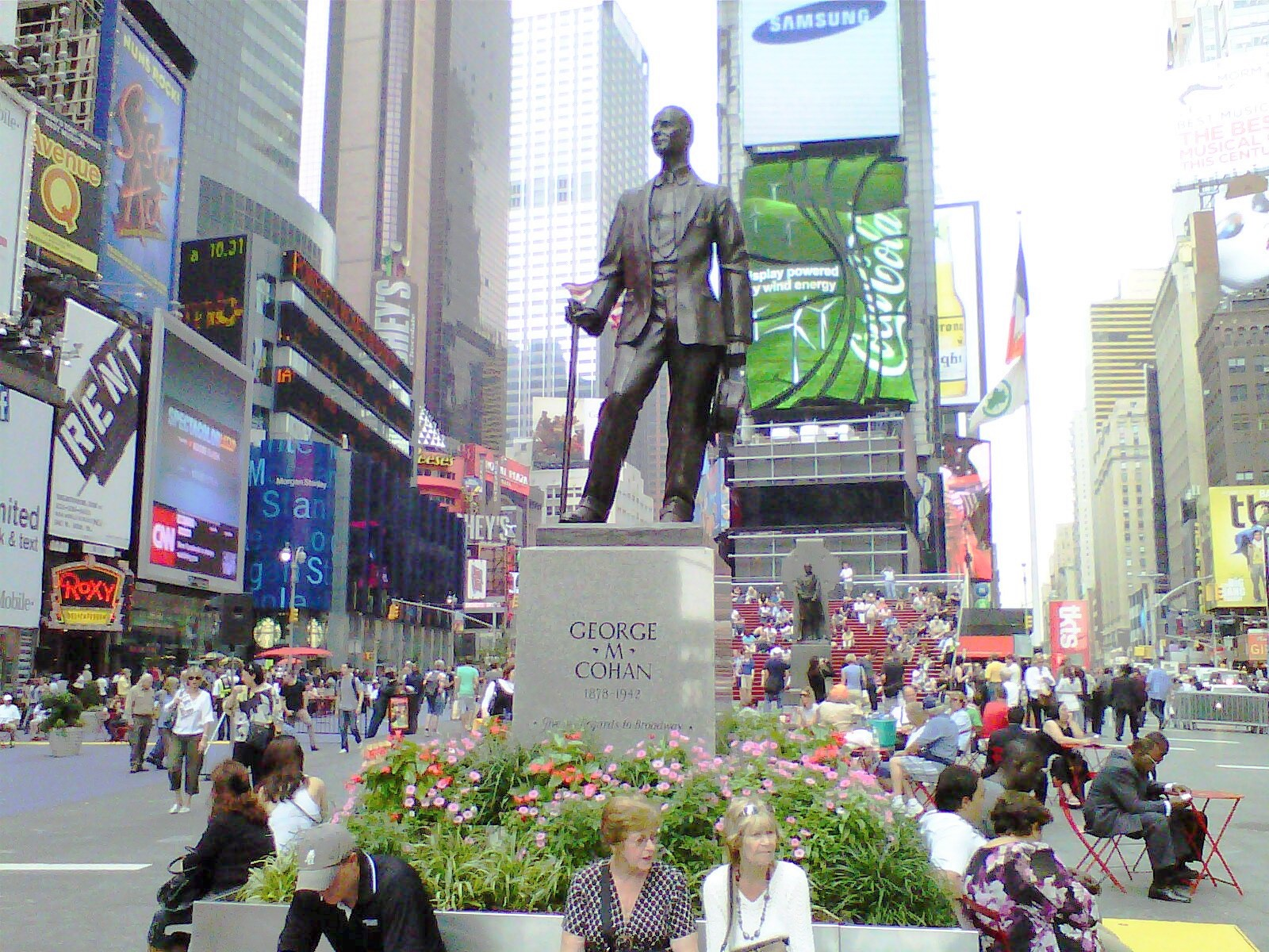 Statue of show business great George M. Cohan in Duffy Square -- the official name for the northern part of Times Square in Manhattan, New York City, with the square behind it.